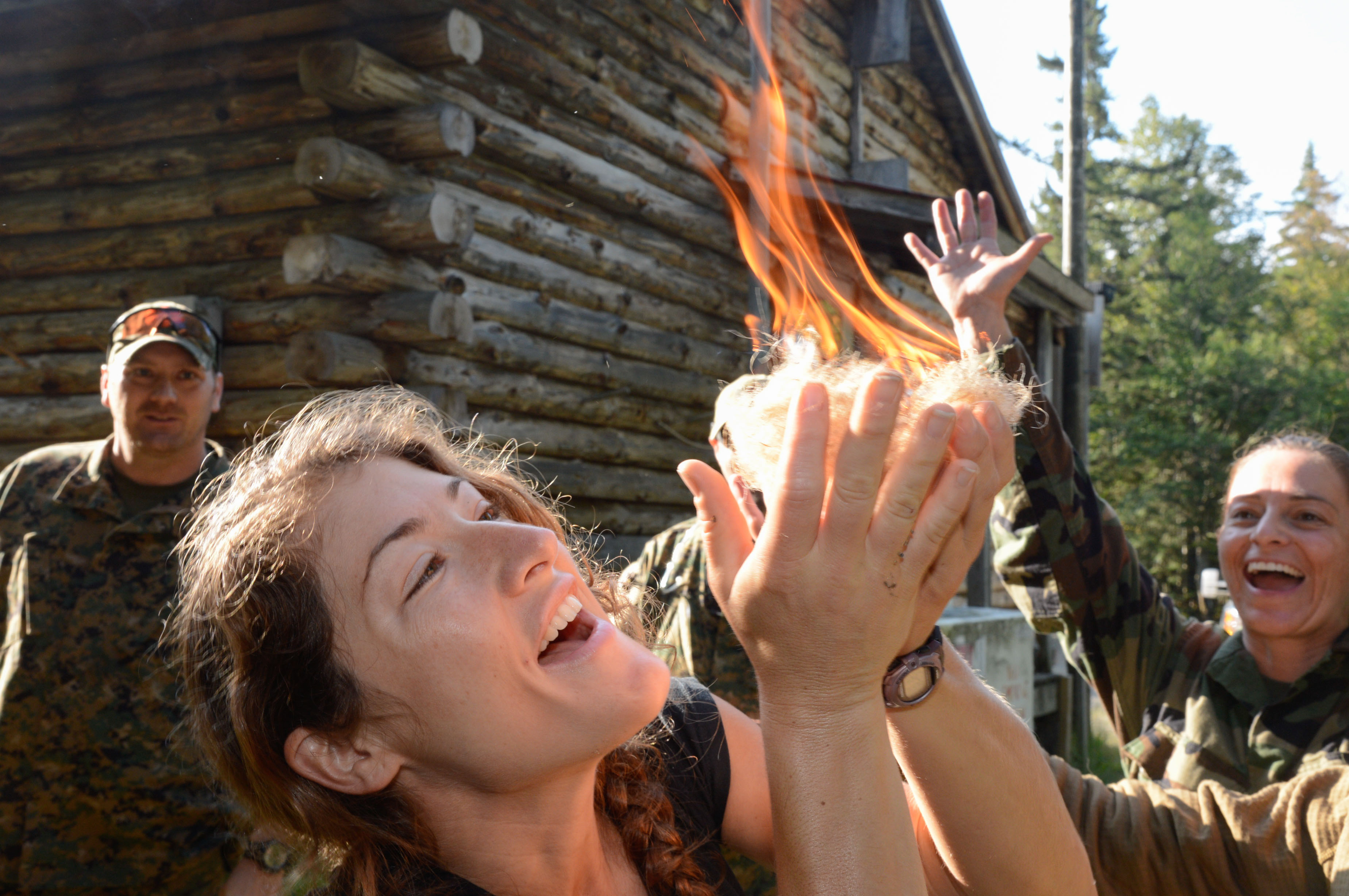 The countenance of astronaut candidate Christina M. Hammock (now Koch) signals her success at fire-starting, a technique that will help sustain her in the wilderness. As the first phase of their extensive training program along the way to become full-fledged astronauts, the eight astronaut candidates of the class of 2013 spent three days in the wild participating in their land survival training, near Rangeley, Maine. Photo credit: NASA/Lauren Harnett Image #: JSC2013-E-078108 Date: August 28, 2013